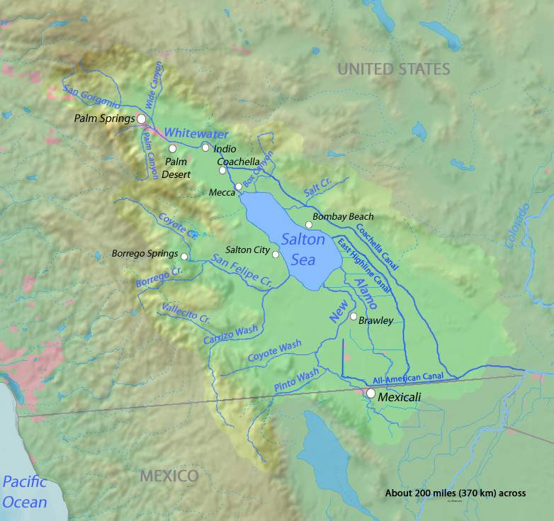 Map of the Salton Sea drainage area in the Salton Sink endorheic basin. In the southeastern Coachella Valley and northwestern Imperial Valley — in Imperial and Riverside Counties. With the New River, Whitewater River, Alamo River and other tributaries; as well as All-American Canal, and Coachella and East Highline Canals indicated.